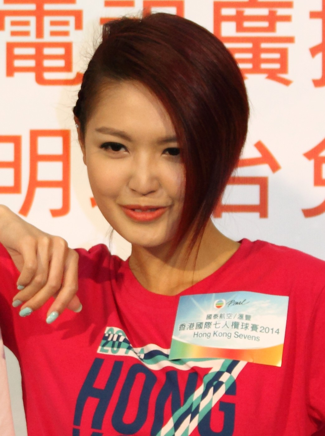 William Chak and Toby Chan promoting the Hong Kong Sevens Rugby.